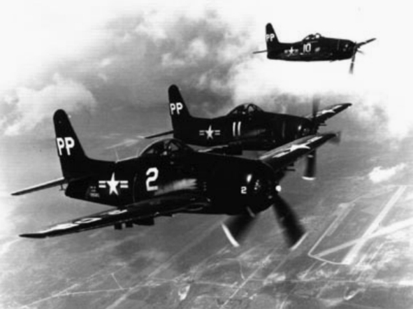 Three U.S. Navy Grumman F8F-2P Bearcat fighters from Composite Squadron 61 (VC-61) Eyes of the Fleet in flight.